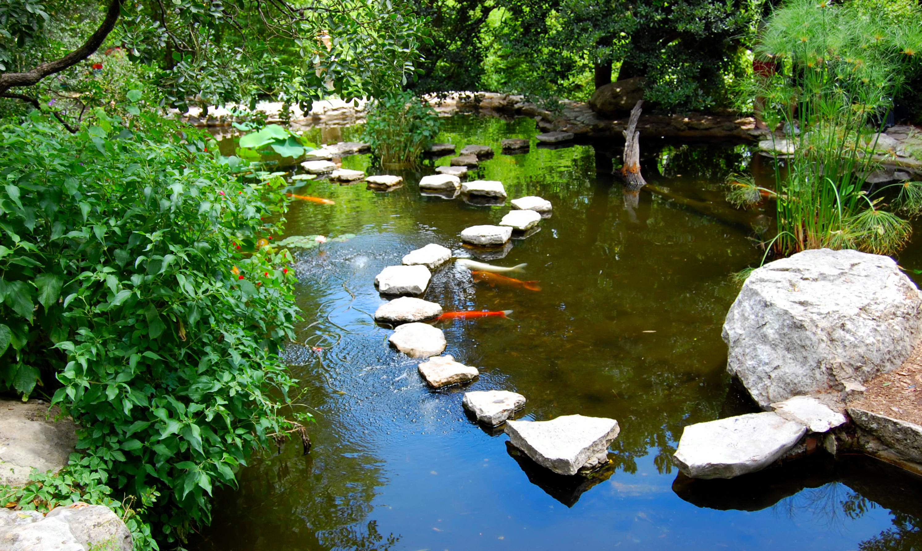 Koi Pond in Isamu Taniguchi Japanese Garden, Zilker Park, Austin, Texas.